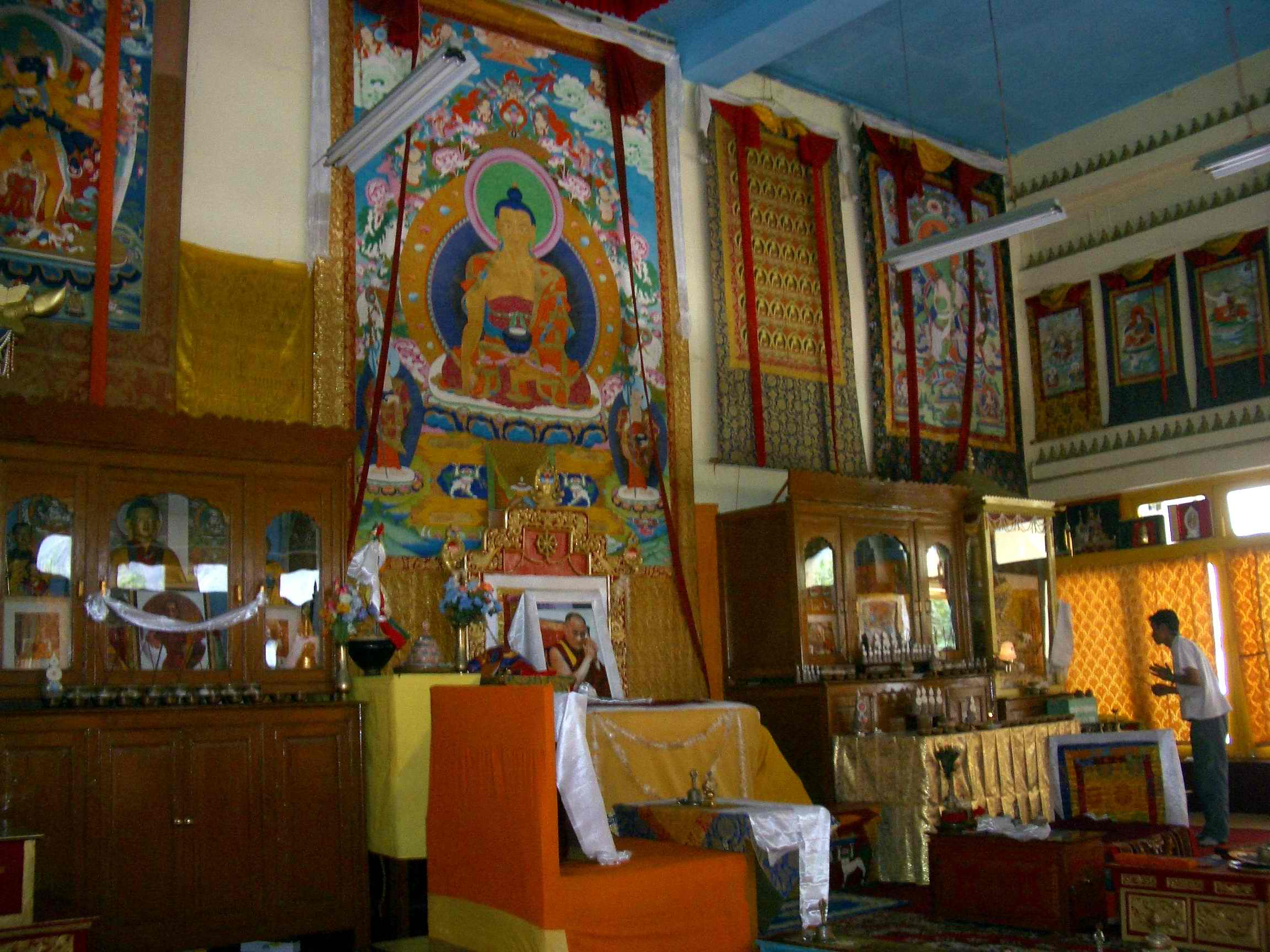 This photo was taken by myself at Tabo in 2004.